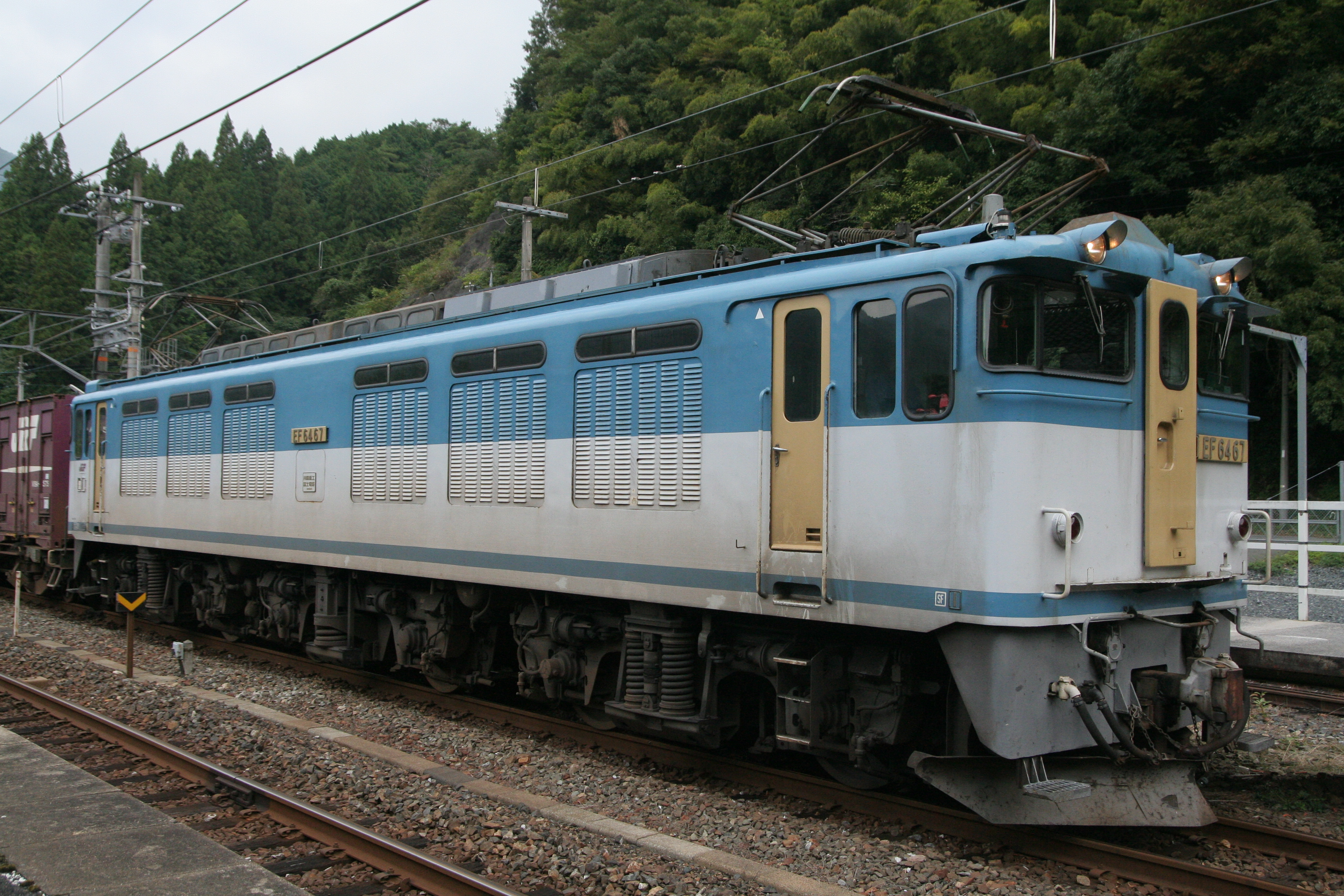 Refurbished JR Freight Class EF64 electric locomotive EF64 67 at Bitchū-Kōjiro Station